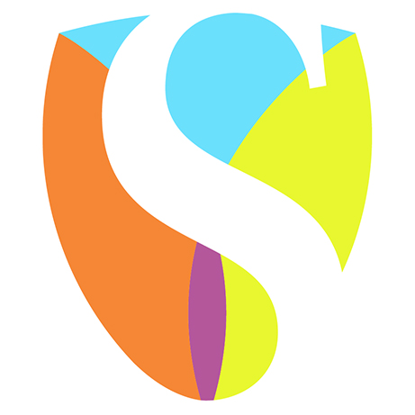 CC-BY Singularity-University-LOGO from flickr